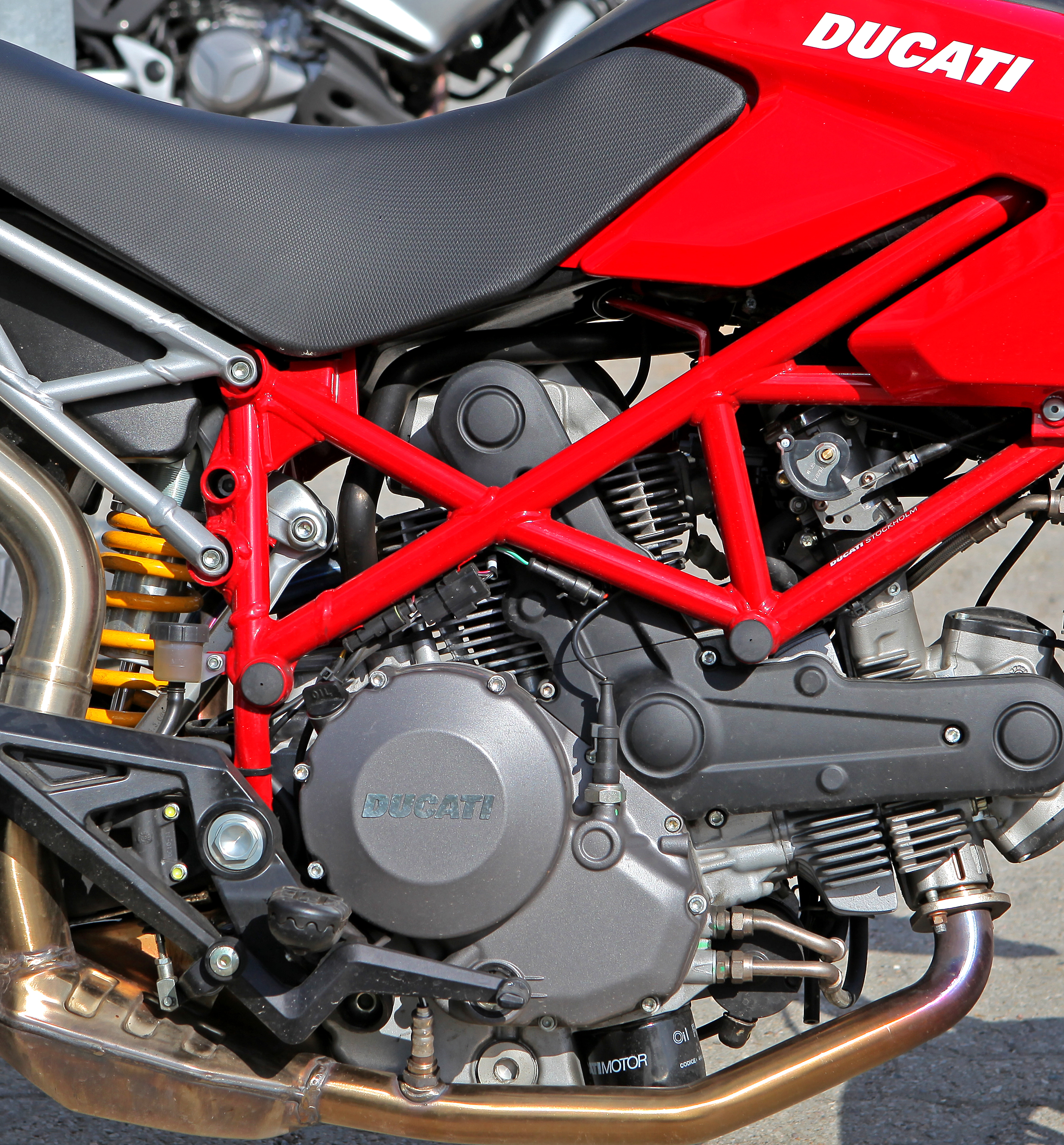 Ducati motorcycle engine. Photo Vaxholm 2010